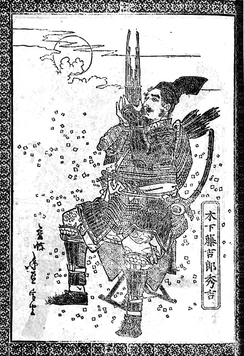 Kinoshita Tōkichirō Hideyoshi, by Gyokuzan Okada, from Ehon Taikōki